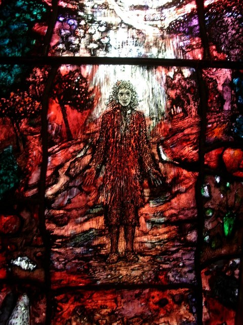 Stained glass in the cathedral Detail of the Thomas Traherne windows by Tomm Denny and installed in 2007.